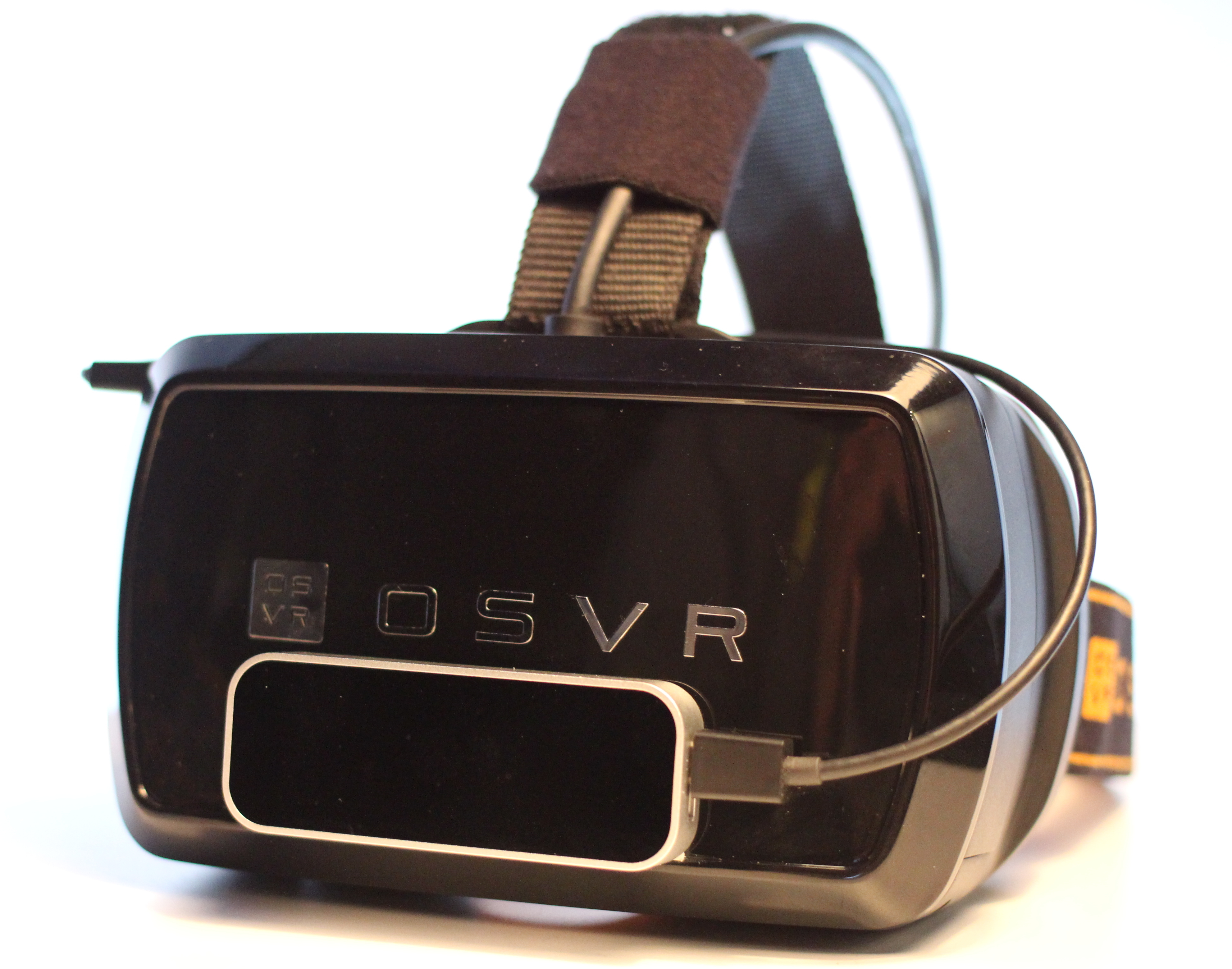 Razer OSVR Open-Source Virtual Reality for Gaming